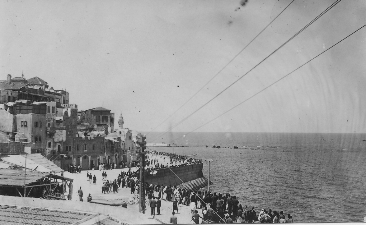 Caption: Border - Jaffa and Tel Aviv.